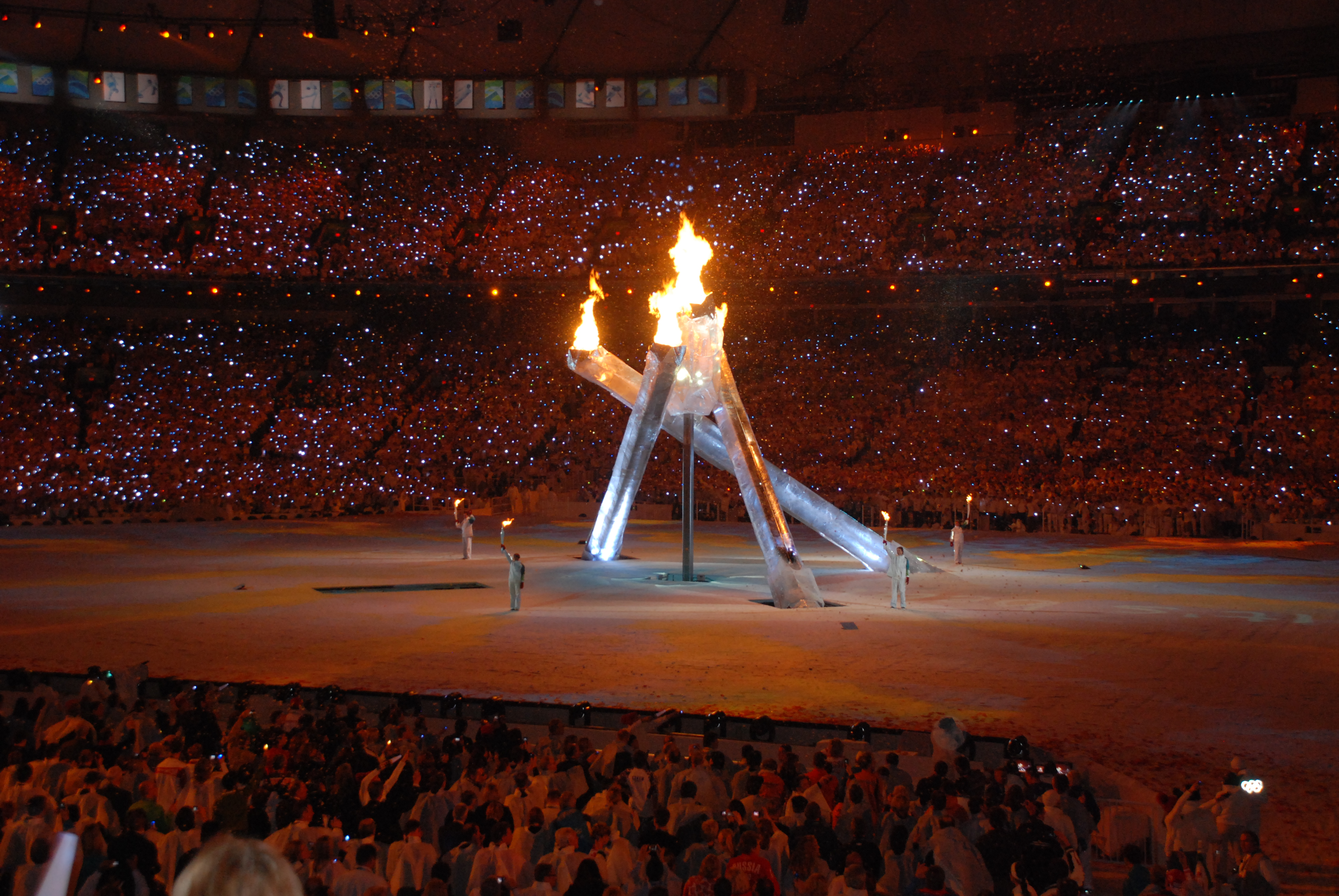 Catriona Le May Doan, Steve Nash, Nancy Greene and Wayne Gretzky light the cauldron in the BC Place Stadium, Vancouver, BC, february 12th 2010.